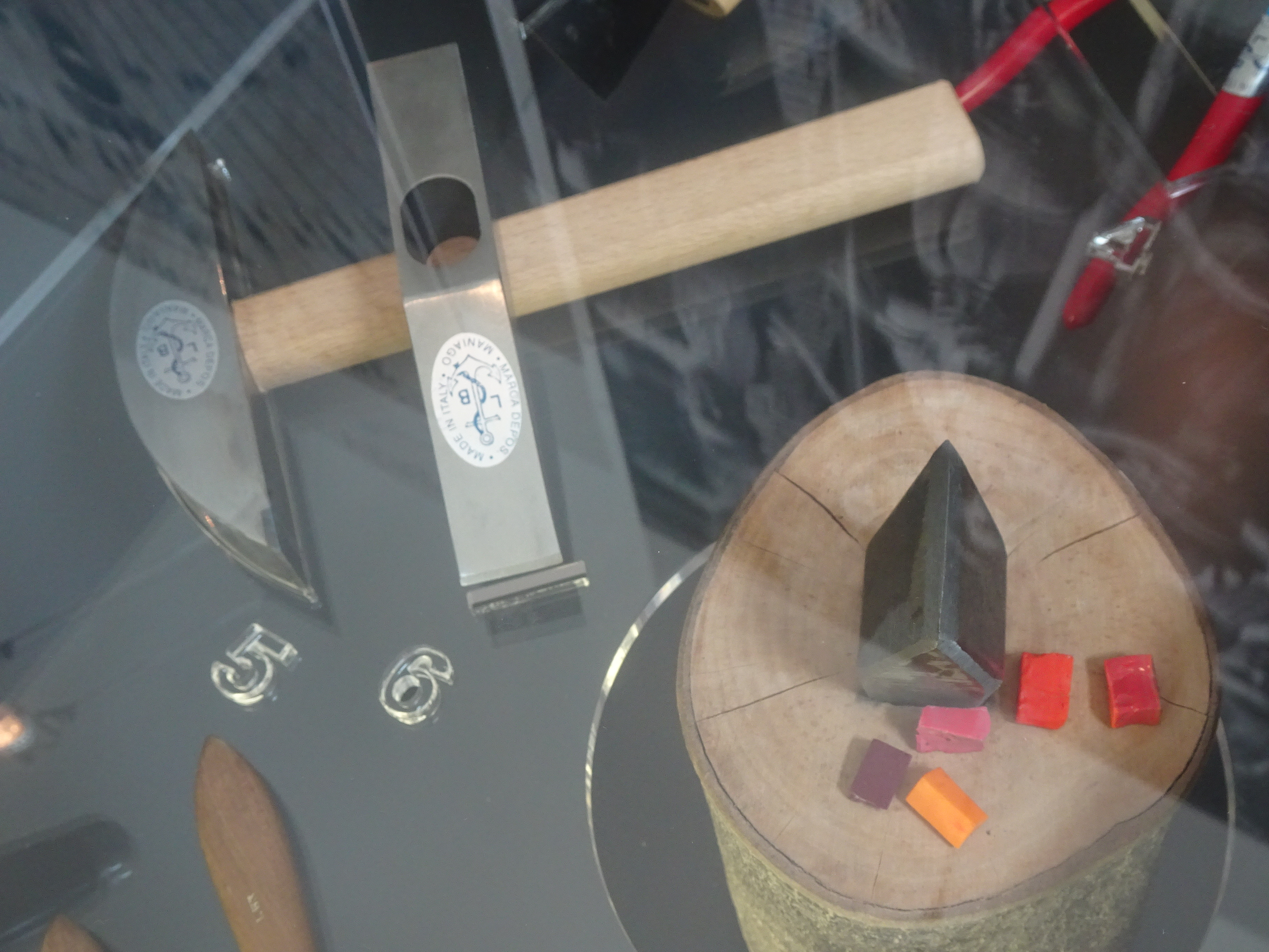 Museum collection at Maniago, Italy